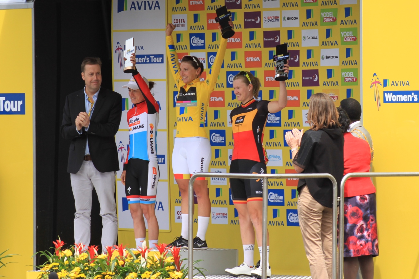 The three top riders of The 2015 Women's Tour on the podium at Hemel Hempstead. Lisa Brennauer wears the winner's yellow jersey; Jolien D'Hoore in second palce is on the right and third palced Christine Majerus is on the left.